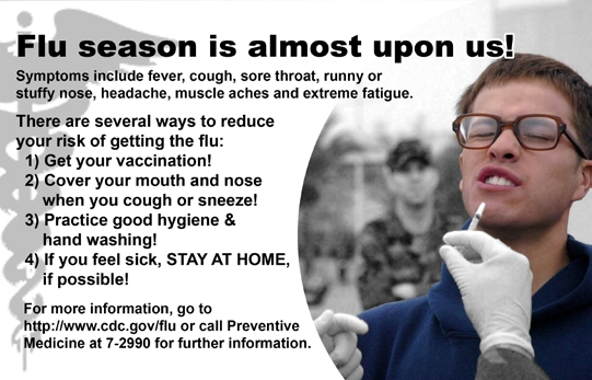 Poster of reluctant GI getting Flu shot.